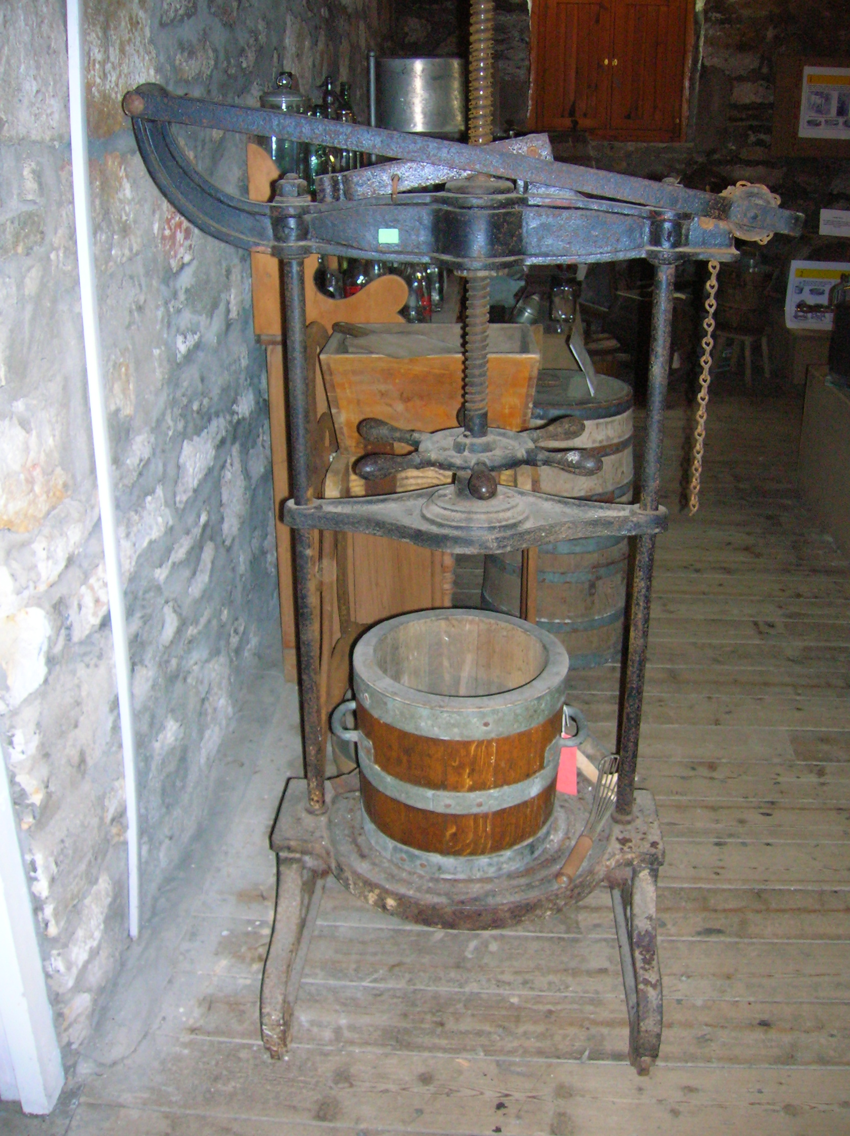 A Cheese Press & chesset from Dalgarven Mill, North Ayrhsire, Scotland.